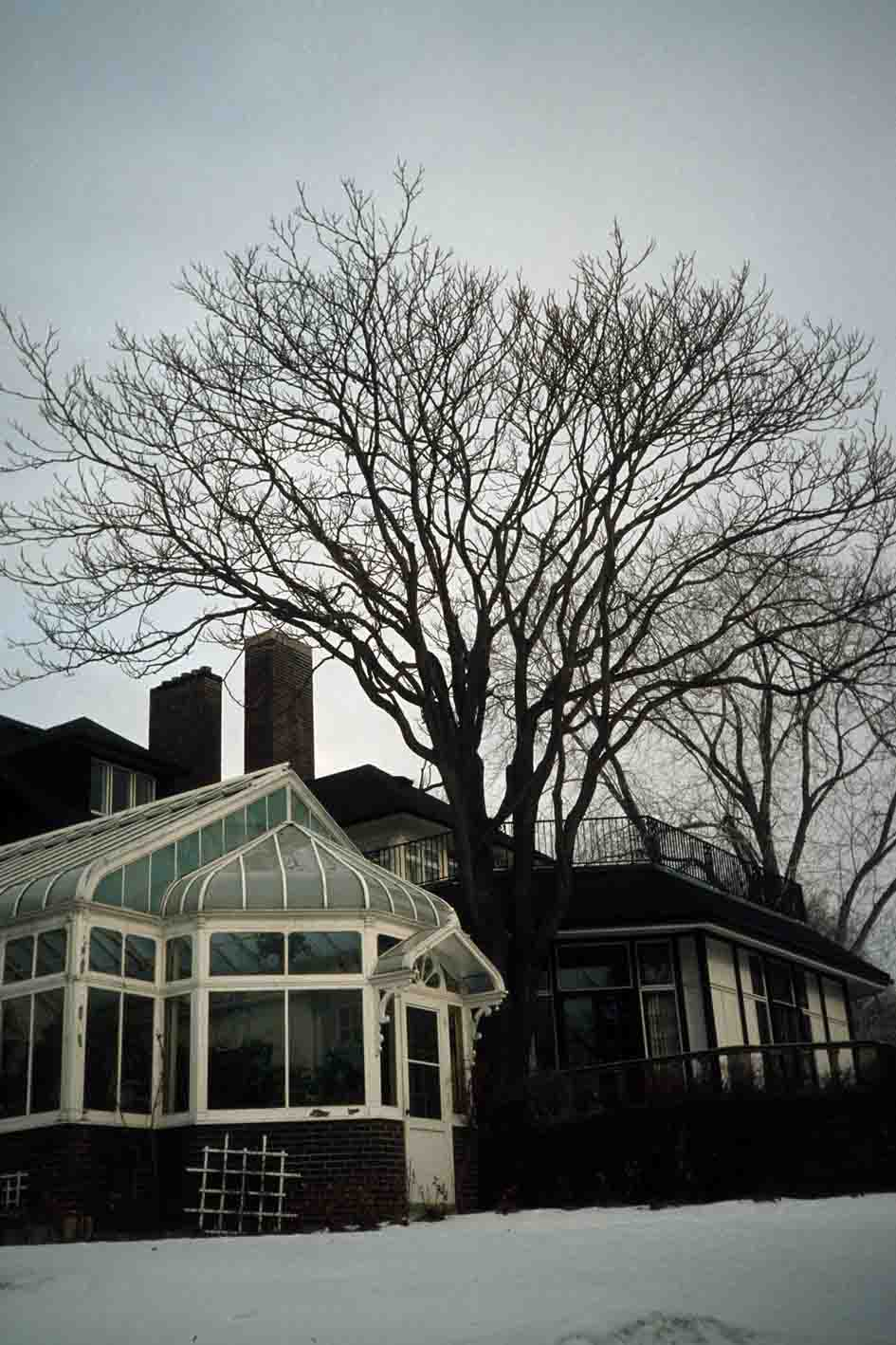 U of T President's House at 93 Highland Ave in Rosedale, Toronto. Photos are primarily horticultural in nature during Wayne Ray's tenure as Estate Gardener/Foreman 1982-1985.